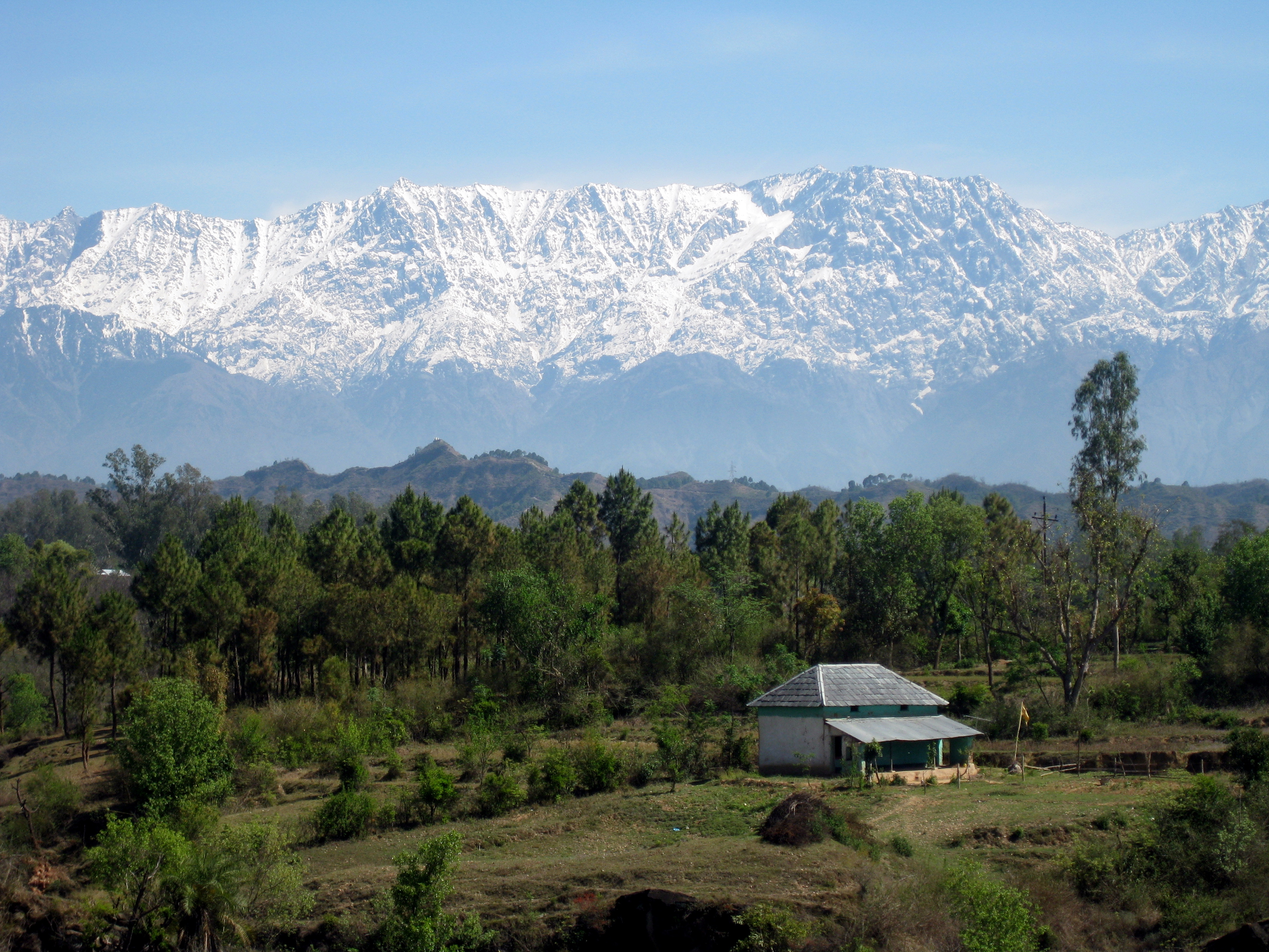 A cottage in the laps of Dhauladhar ranges in the tranquil Kangra valley. Situated on the southern spur of Dhauladhar in the valley. The Kangra Valley is situated in the Western Himalayas.